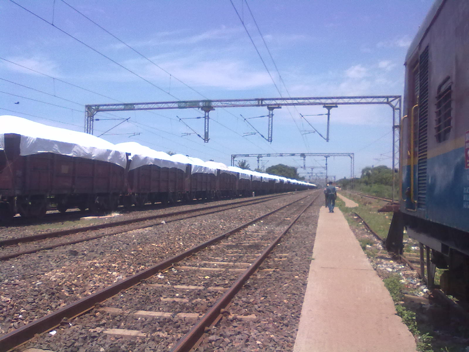 It is the pathway for west side connectivity from station